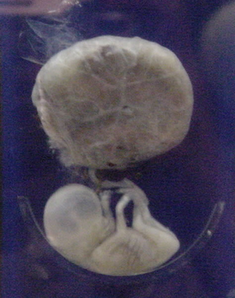 3 month old fetus attached to umbilical cord, attached to placenta